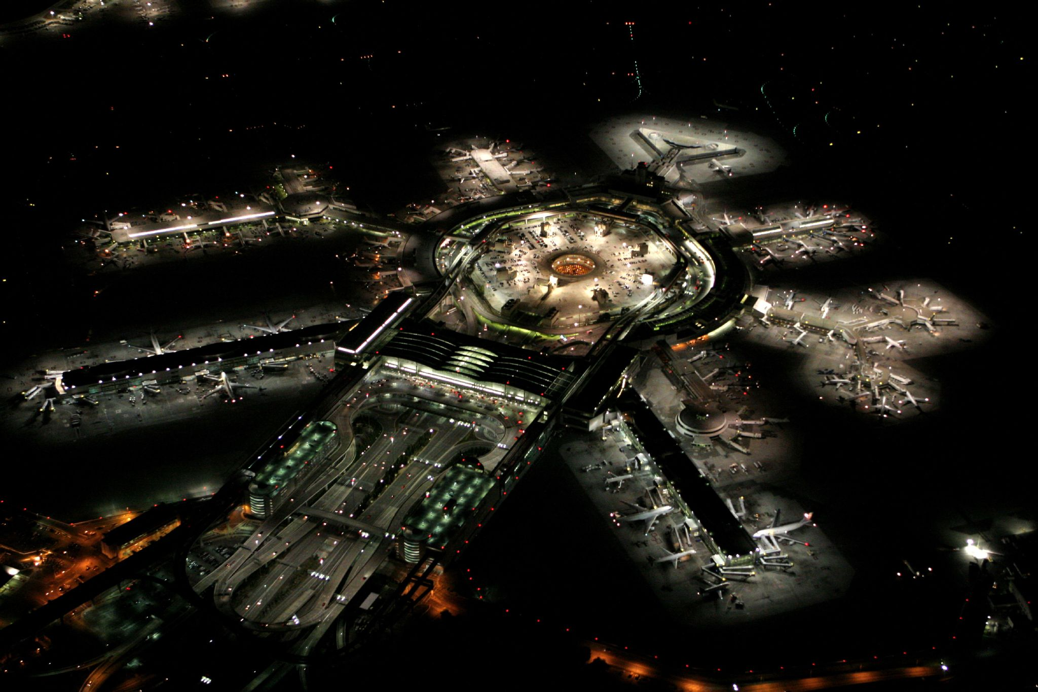 San Francisco Airport (SFO) at night.See below for more translations.SFO at Night